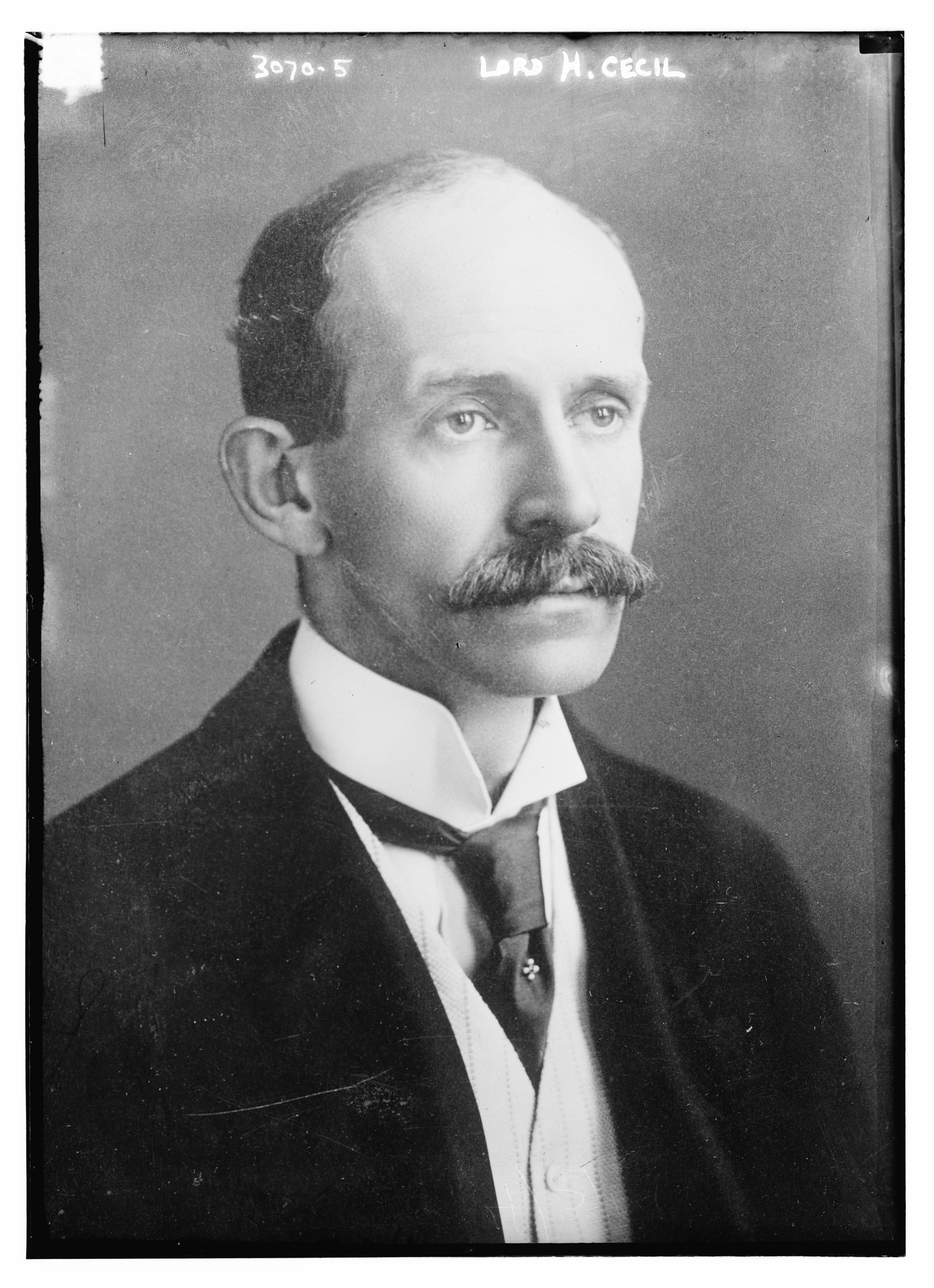 Hugh Cecil circa 1914